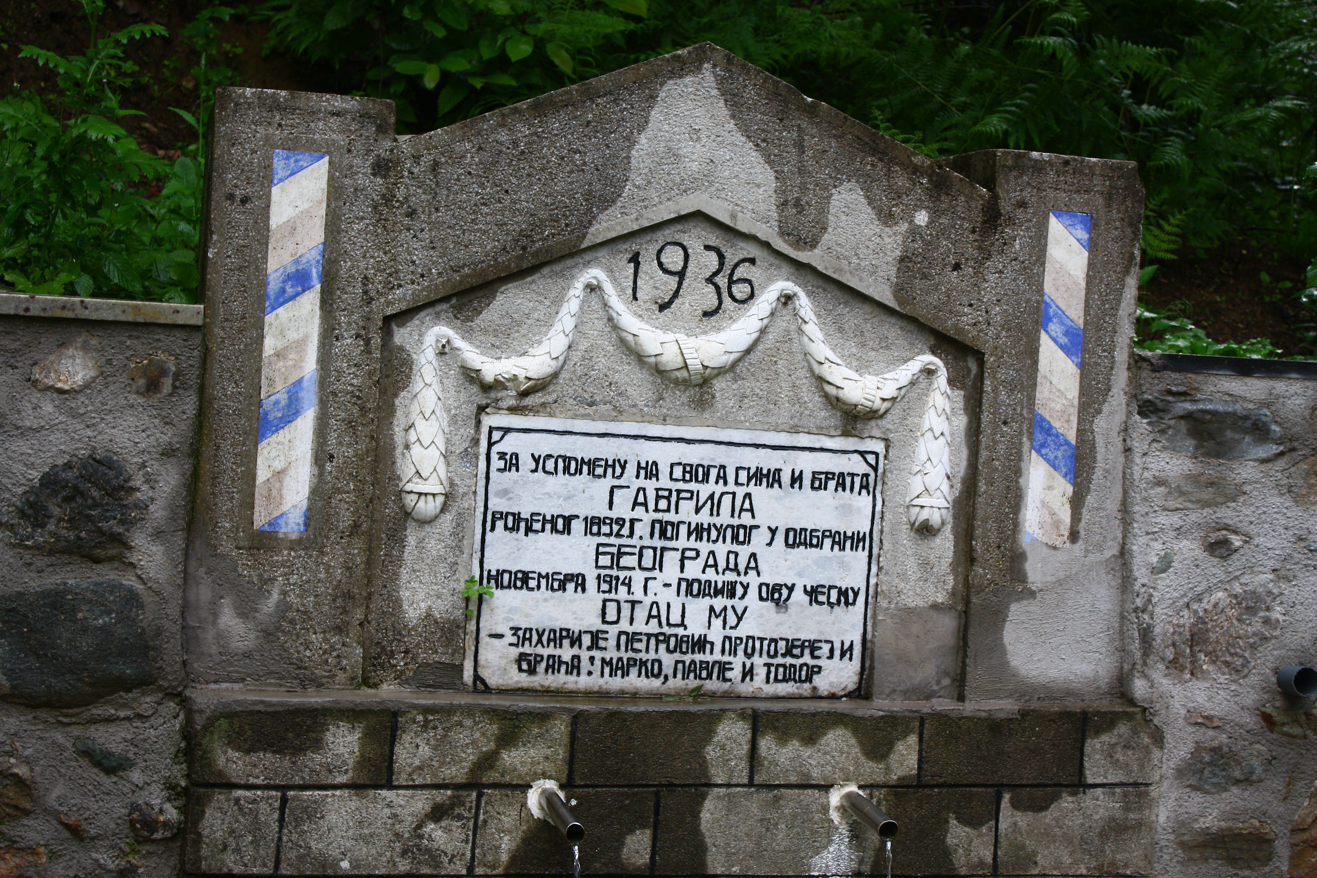 Village of ‚Požarane, Macedonia